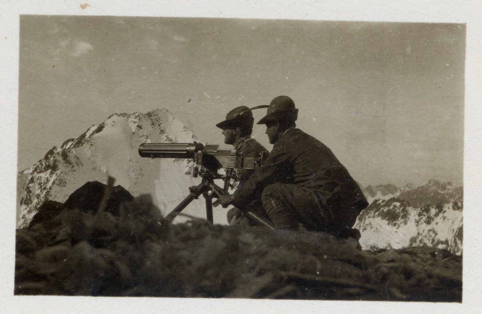 World War 1 - Italian Army: Sentinella Col - Italian forces on 27th August 1915